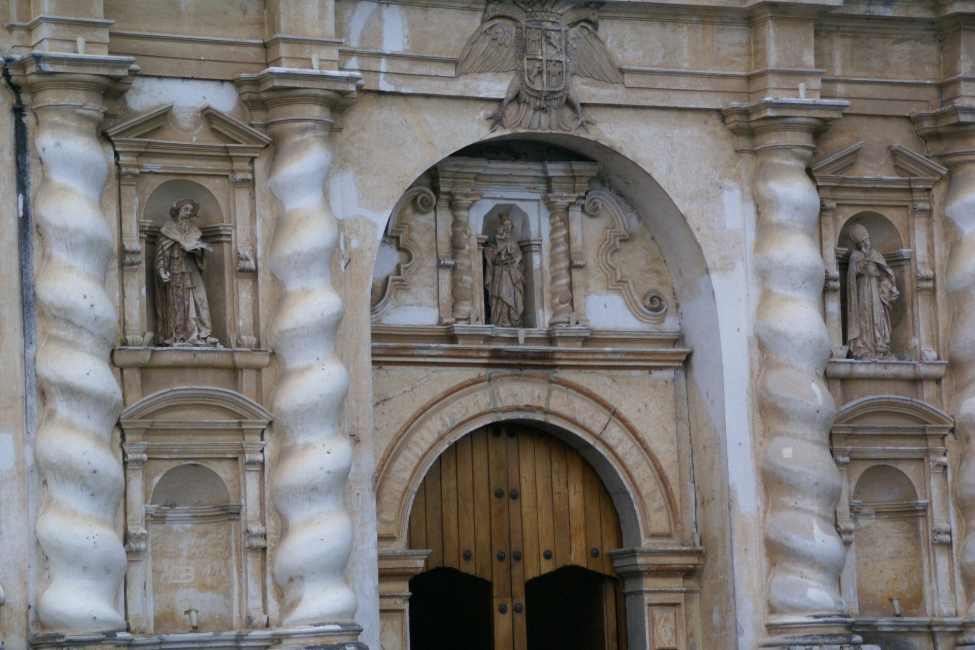 Facade detail of San Francisco Church in Antigua Guatemala